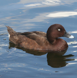 Aythya australis, Western Australia